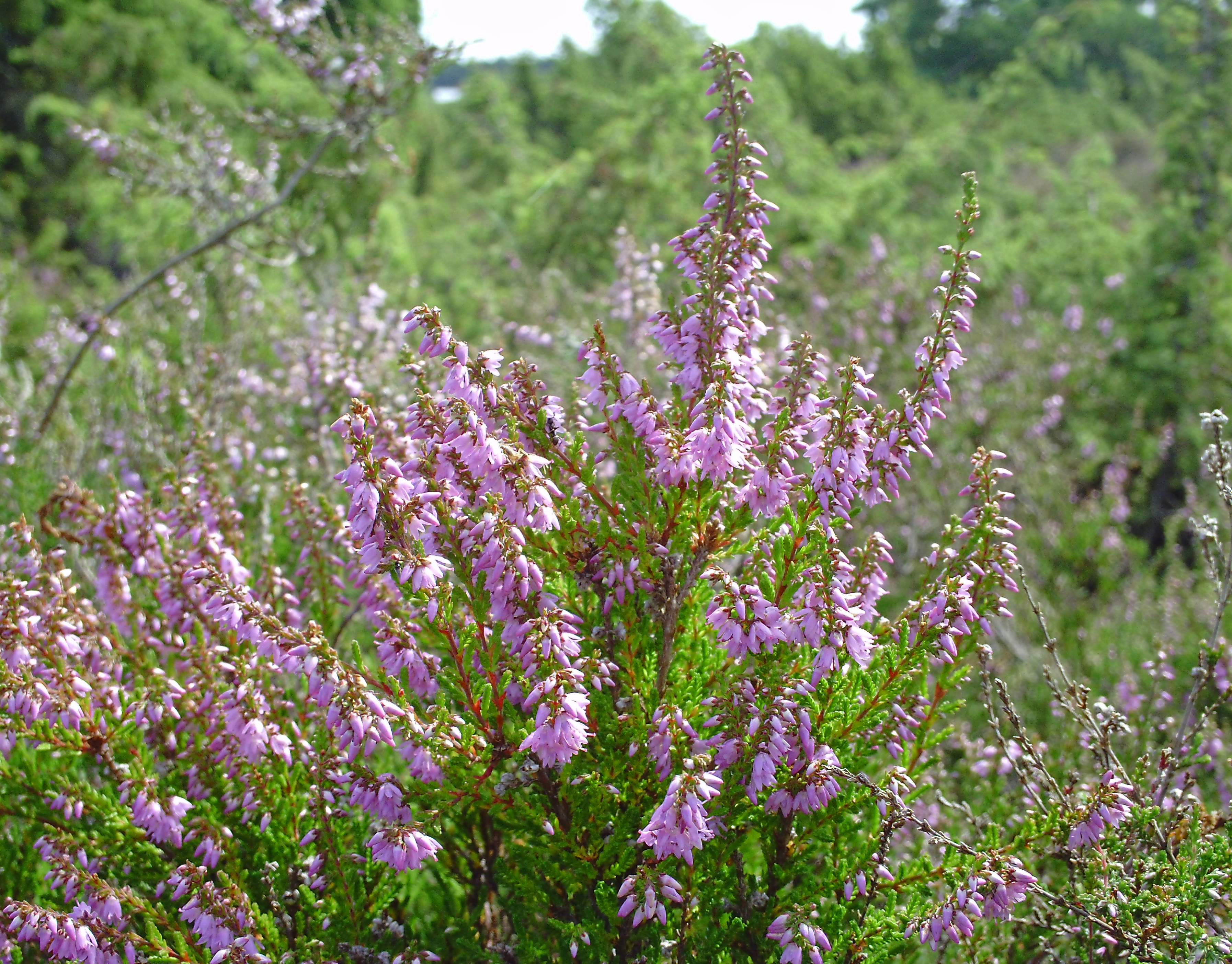 Calluna vulgaris (Heather) on Årnäshalvön in Halland, Sweden.